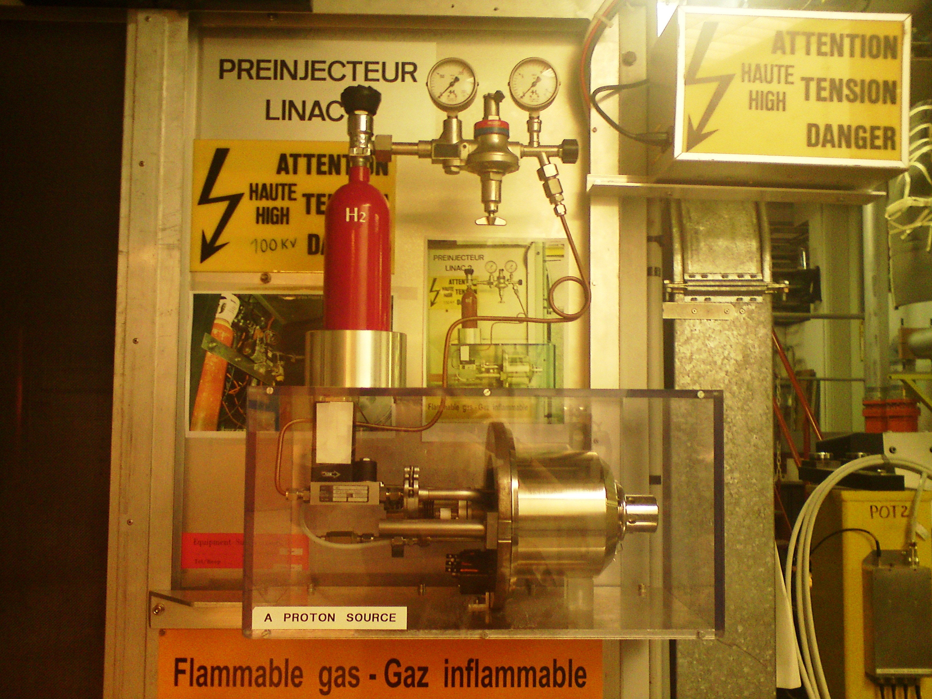 The hydrogen tank which provides all the protons for the LHC experiments.